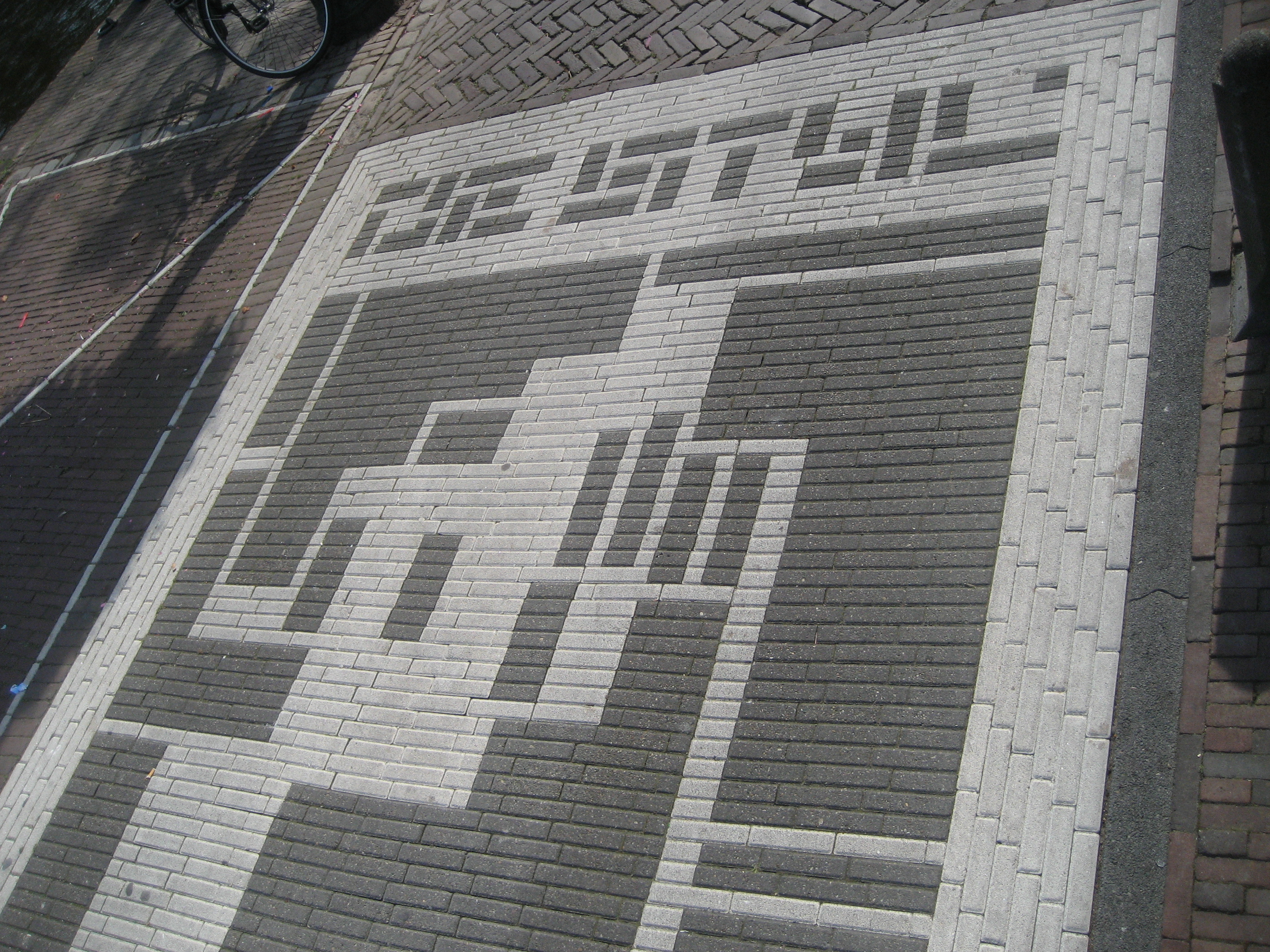 De Stijl. Clinker bricks forming the cover of magazine De Stijl. Original design by Vilmos Huszar, laid down at Kort Galgewater 3 in Leiden, the house where Theo van Doesburg lived from 1917-1920. Initiated by Foundation Tegenbeeld in Leiden (The Netherlands) in 2008. Unveiled on 19 November 1992 to commemorate 75 years De Stijl.